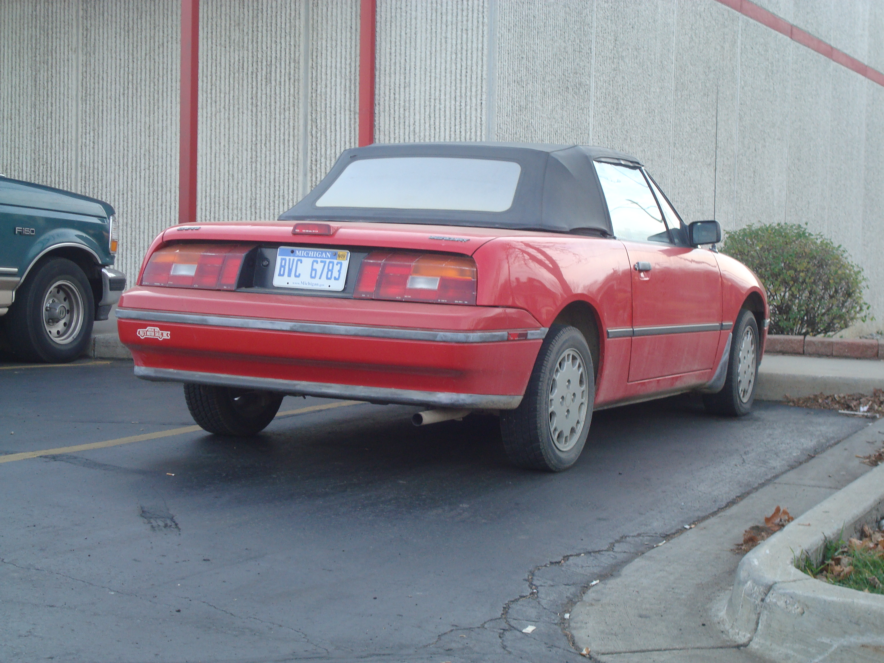 Mercury Capri photographed in Lansing, Michigan